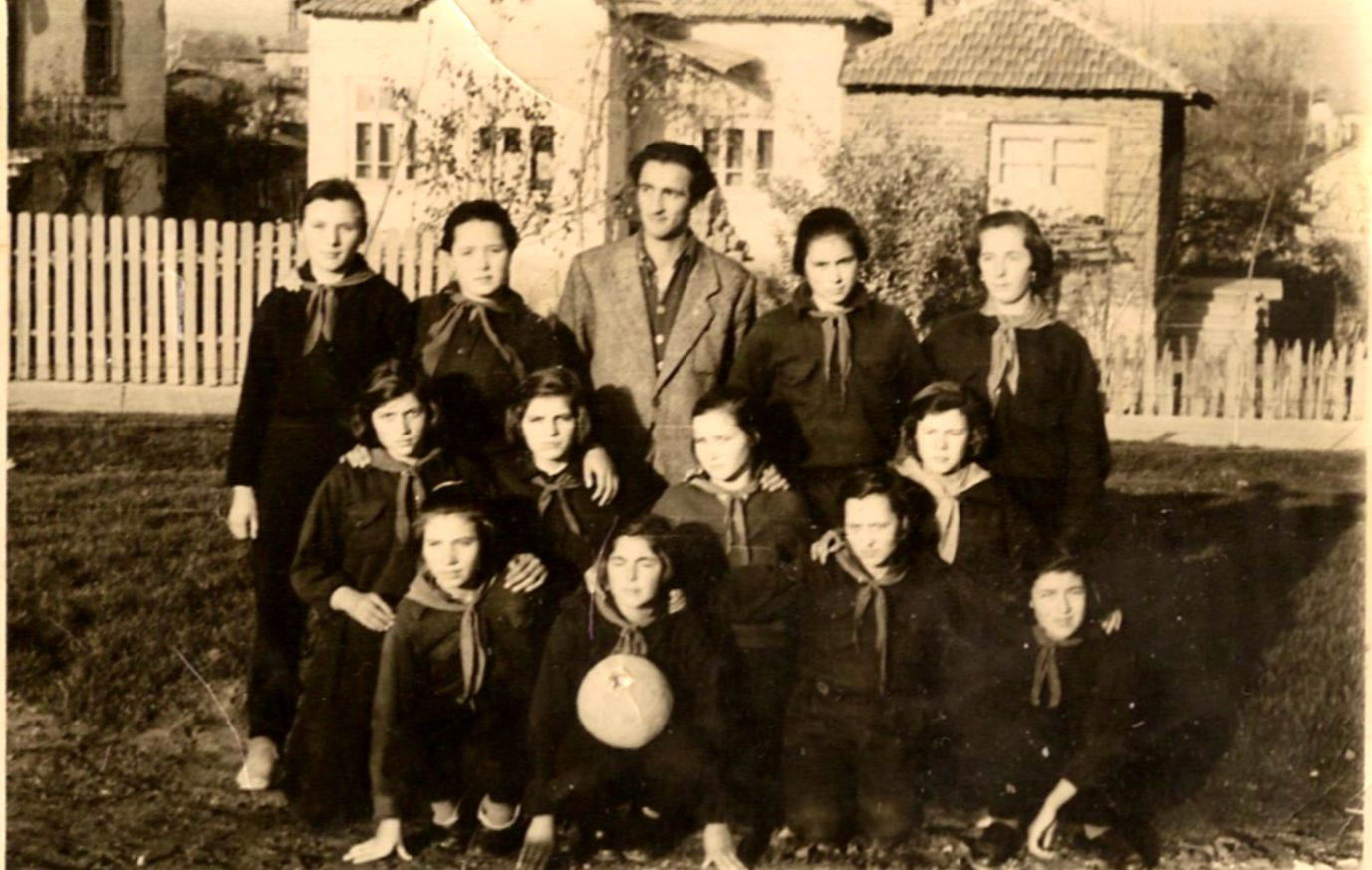 Basketball team Vihar Aldomirovtsi, 1965